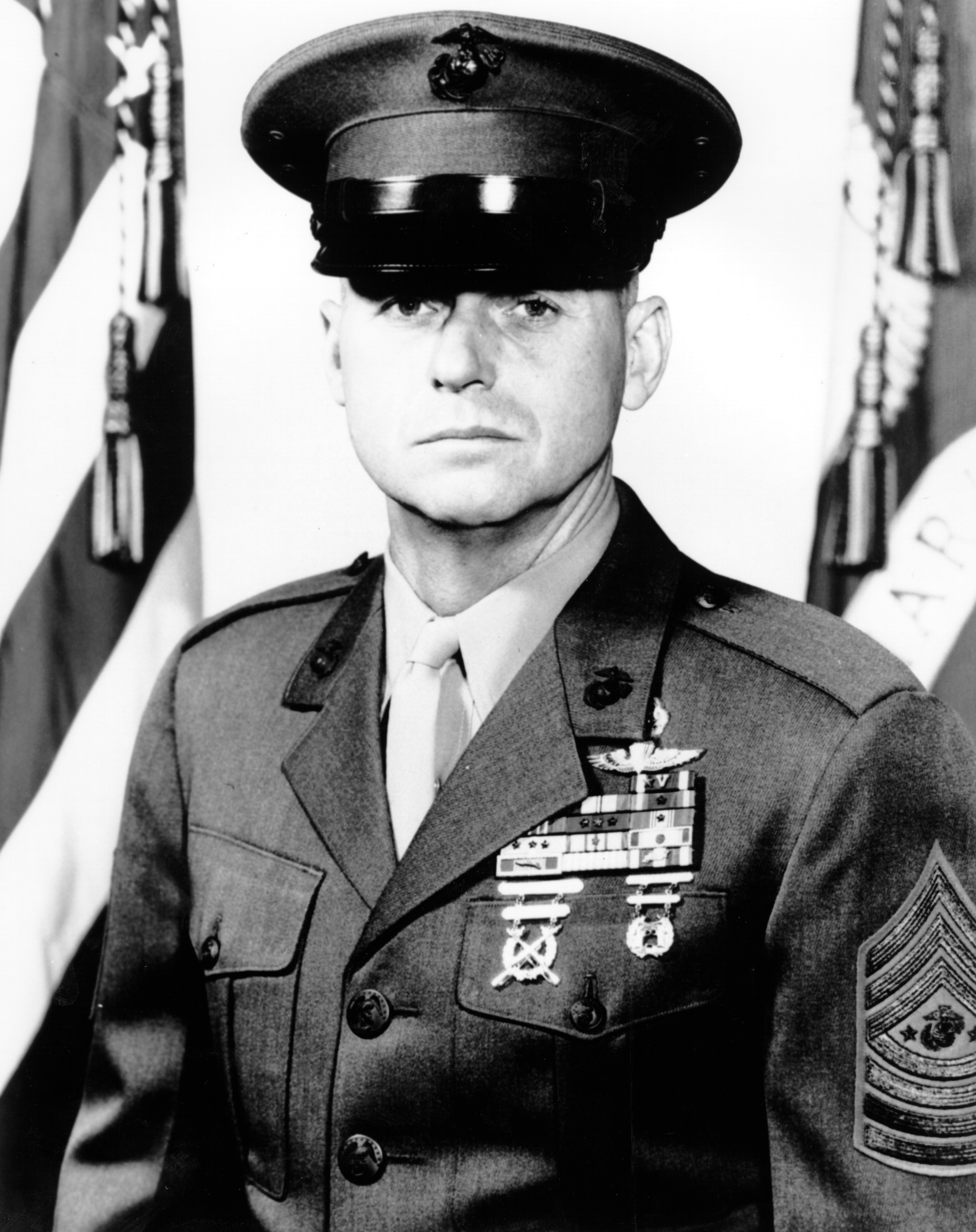 Sergeant Major John R. Massaro, 8th Sergeant Major of the Marine Corps; high res image from official Marine Corps bio